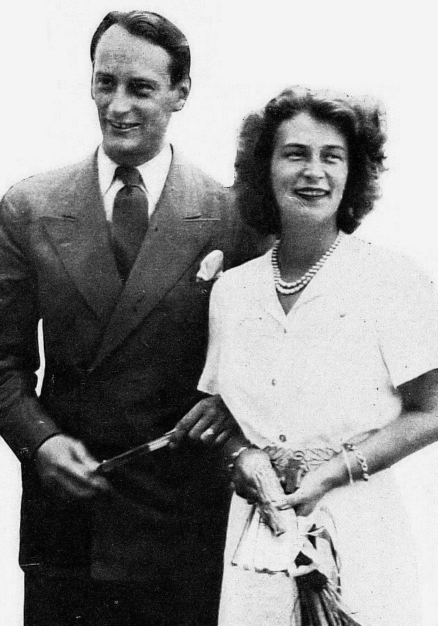 Louis Ferdinand and Kira Kirillovna visit to Japan